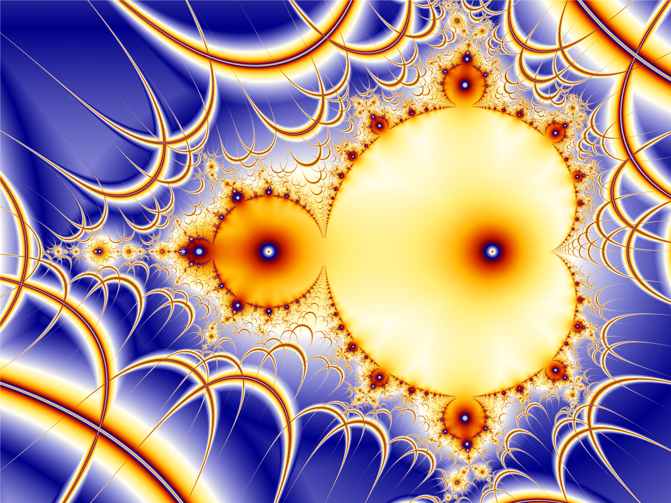 Mandelbrot set rendered using orbit trap technique. A combination a cross (dual line) and point shapes.